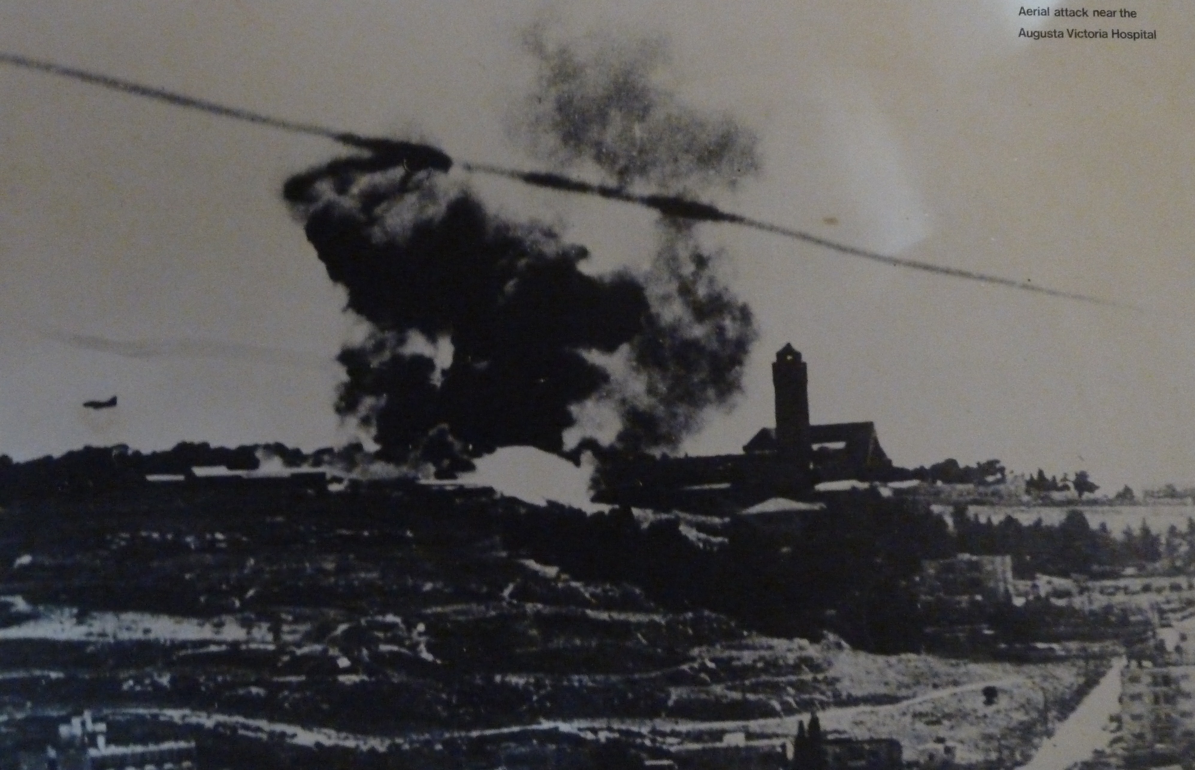 Ammunition Hill Museum Exhibits, Historic Images of Jerusalem